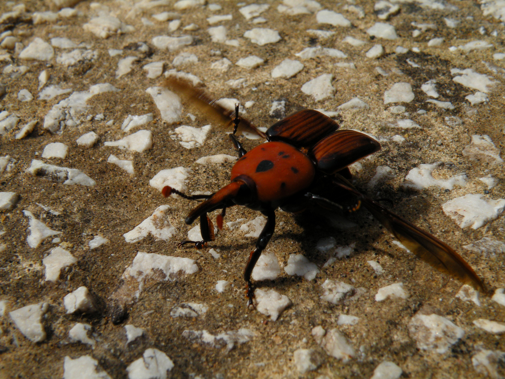 Rhynchophorus ferrugineus